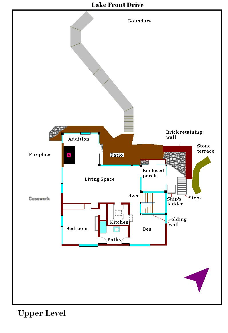 Upper level of the Meyer House, Beverly Shores, Indiana. Based on the drawings included in the nomination for the National Register of Historic Places.